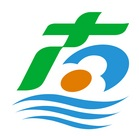 Minamisanriku Miyagi chapter